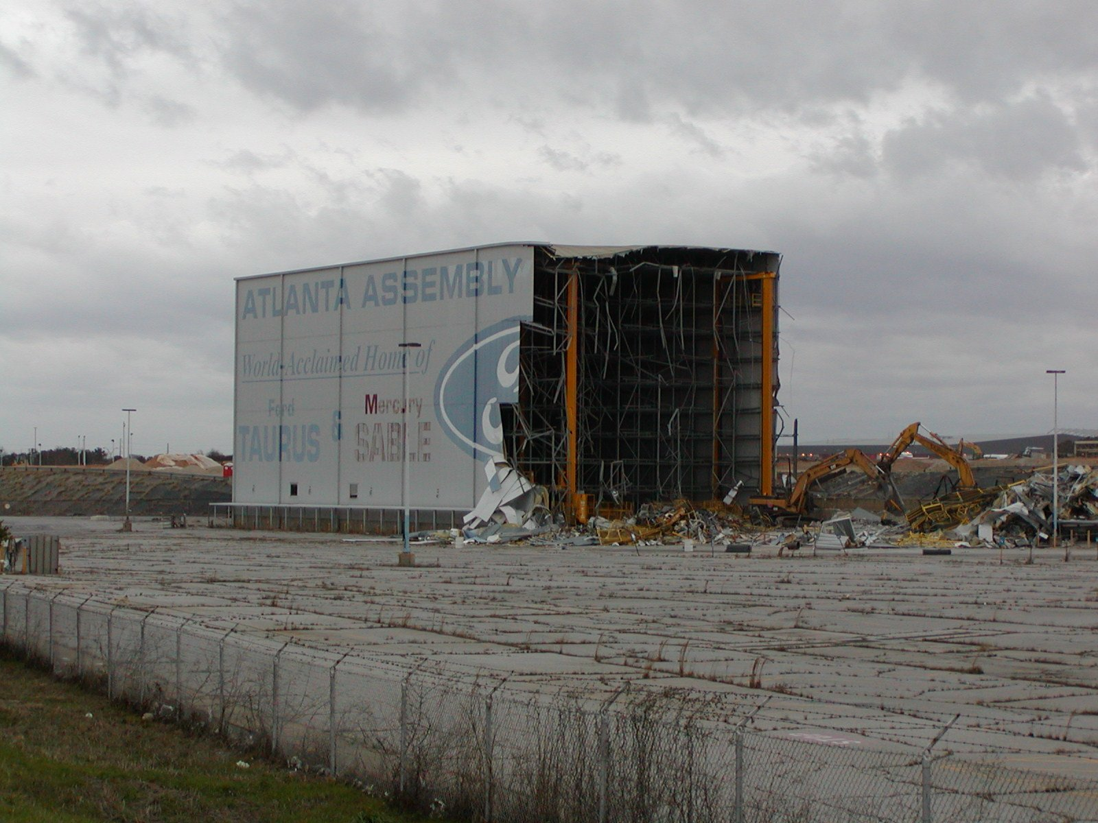 Photograph of the Ford Taurus/Mercury Sable assembly plant in Hapeville GA, February 2009.